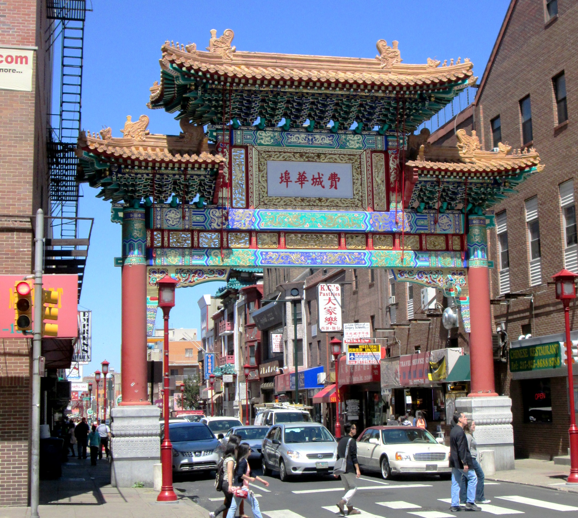 The Friendship Gate, Friendship Arch or China Gate on N. 10th Street near the intersection with Arch Street in the Chinatown neighborhood of Philadelphia was built in 1984 and was designed by Sabrina Soong. It was constructed by engineers and artisans from China. The large Chinese characters on translate as "Philadelphia Chinatown". The brightly painted portal follows a traditional Qing Dynasty style, using tiles from Philadelphia’s sister city, Tianjin. (Source: "The China Gate")